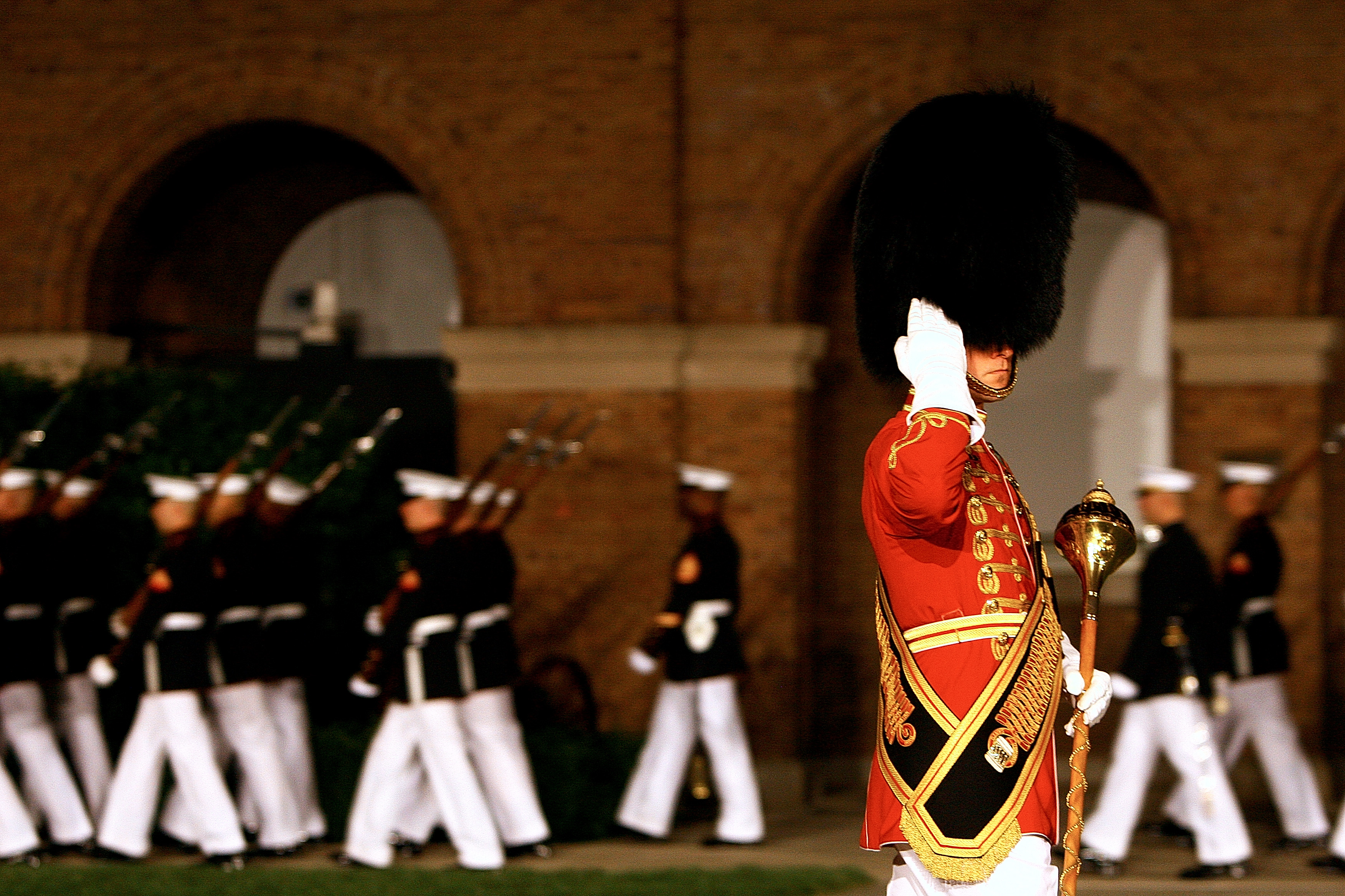 Gunnery Sgt. Duane King, U.S. Marine Band drum major, salutes passing in review during a Friday Evening Parade at Marine Barracks Washington June 8.